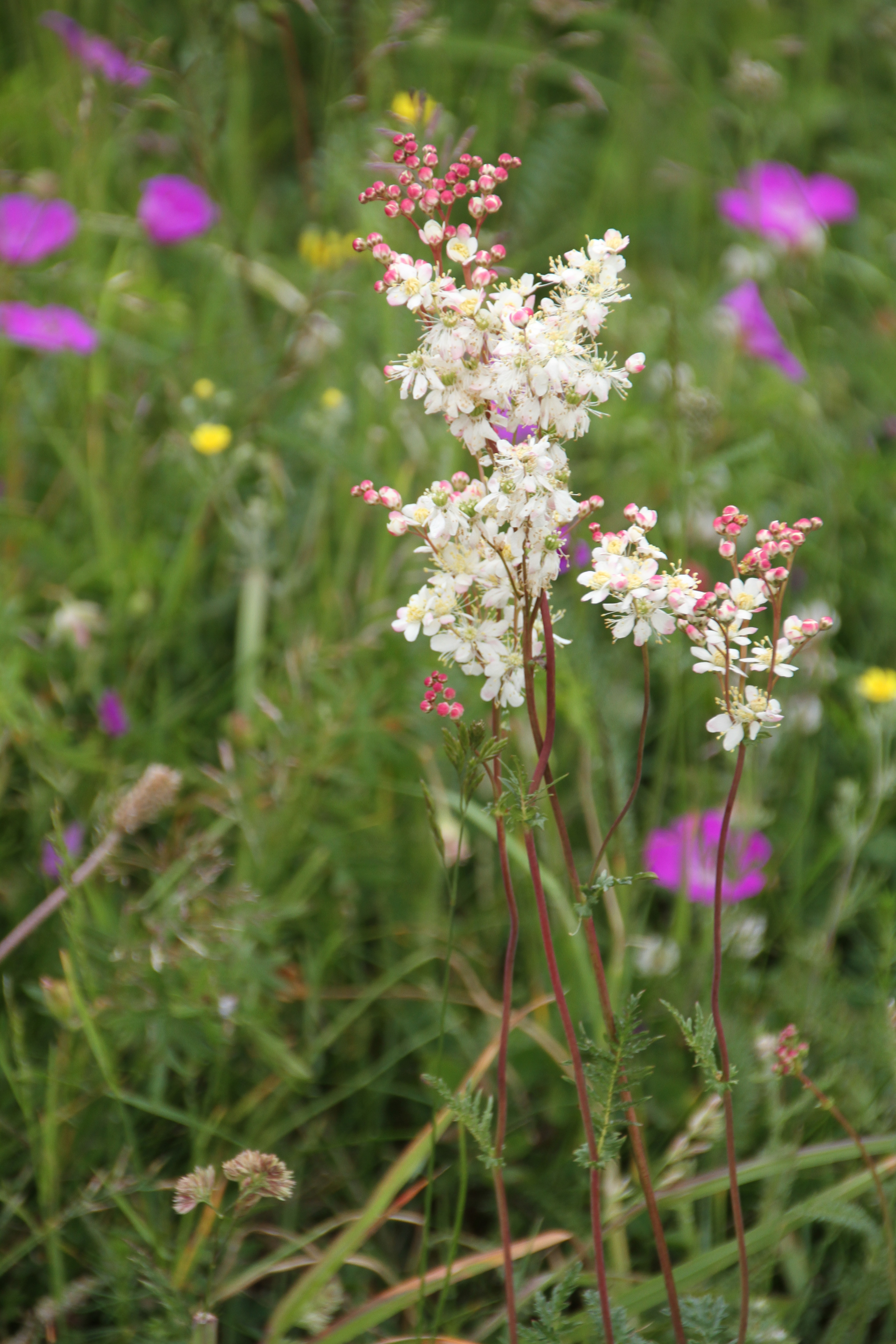 Photo of plant specie at the Hovedøya island, inner Oslofjord, Oslo municipality (Norway)